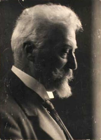 Carl August Claudius (1855-1931), Danish industrialist and music instrument collector